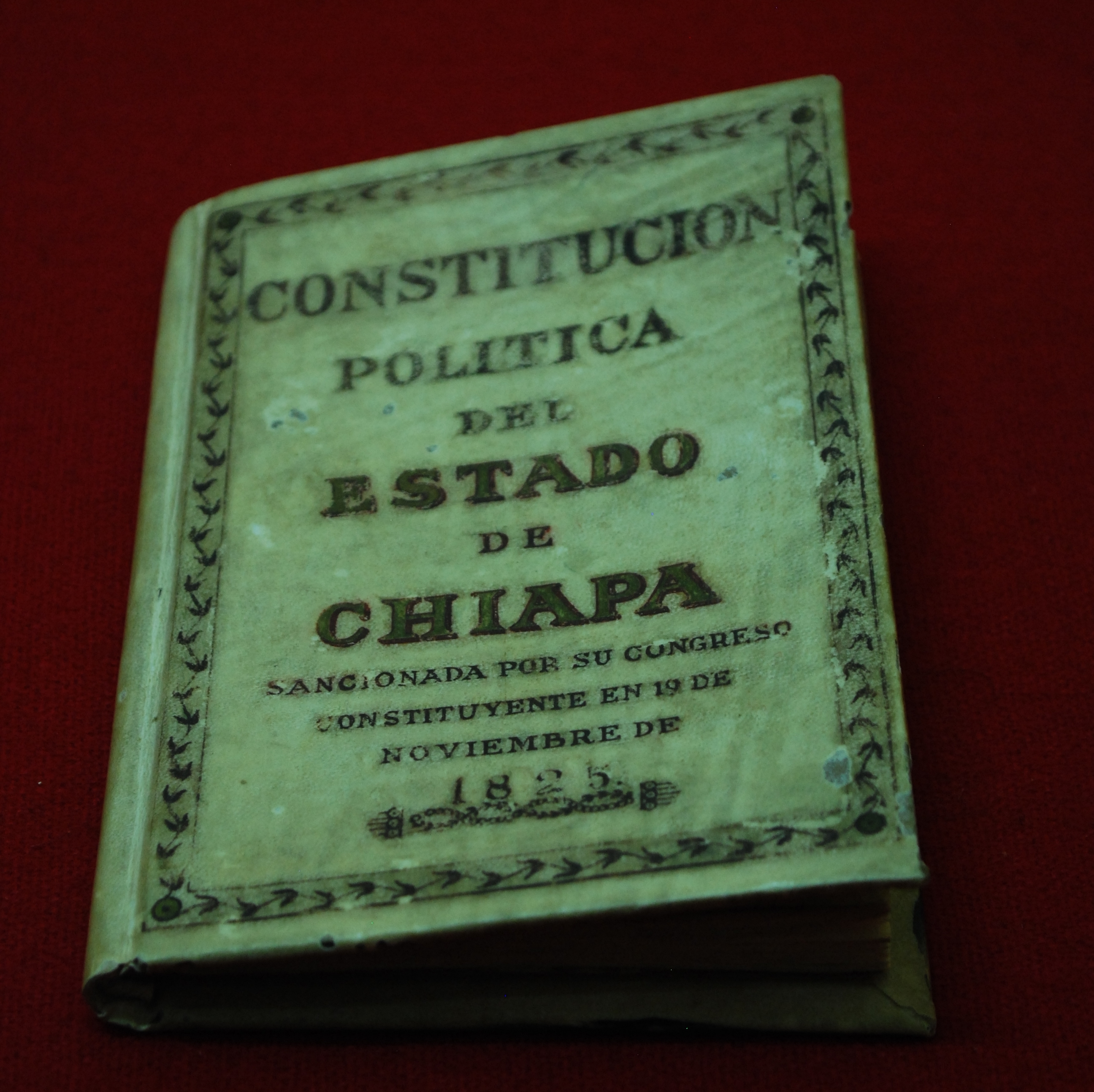 1825 state constitution of Chiapas on display at the regional museum in Tuxtla Gutierrez, Chiapas, Mexico